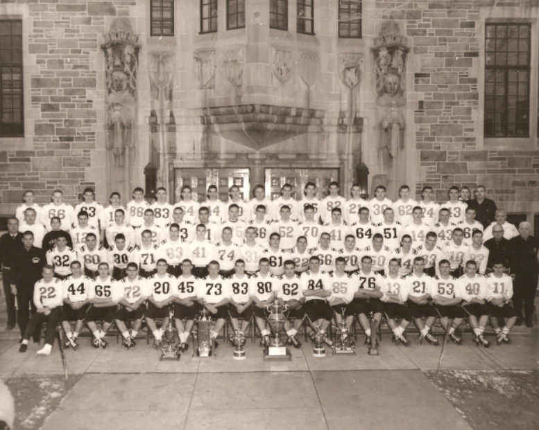 fbfenwick